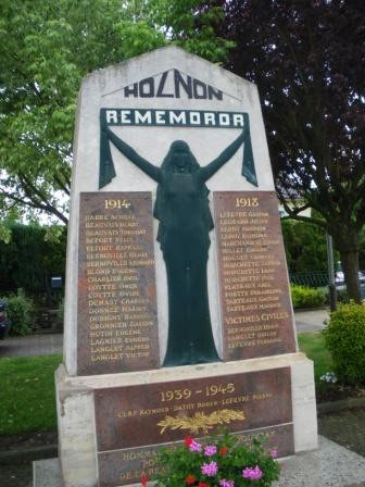 The monument aux morts (War memorial) of the village of Holnon which lies a few kilometres west of Saint-Quentin in the Aisne region of France.The sculptor was Grégoire Calvet (1871-1928). The monument was inaugurated on the 30th May 1926.